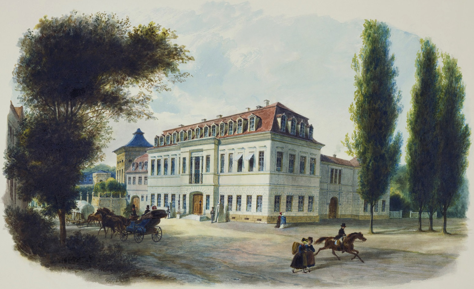 The Duchess's winter residence, seen from the north, with the Orangery in background on left. The house, later the Ministerium, stands at right angles to the Palais Friedrichsthal, on the same street, the Friedrichsstrasse.